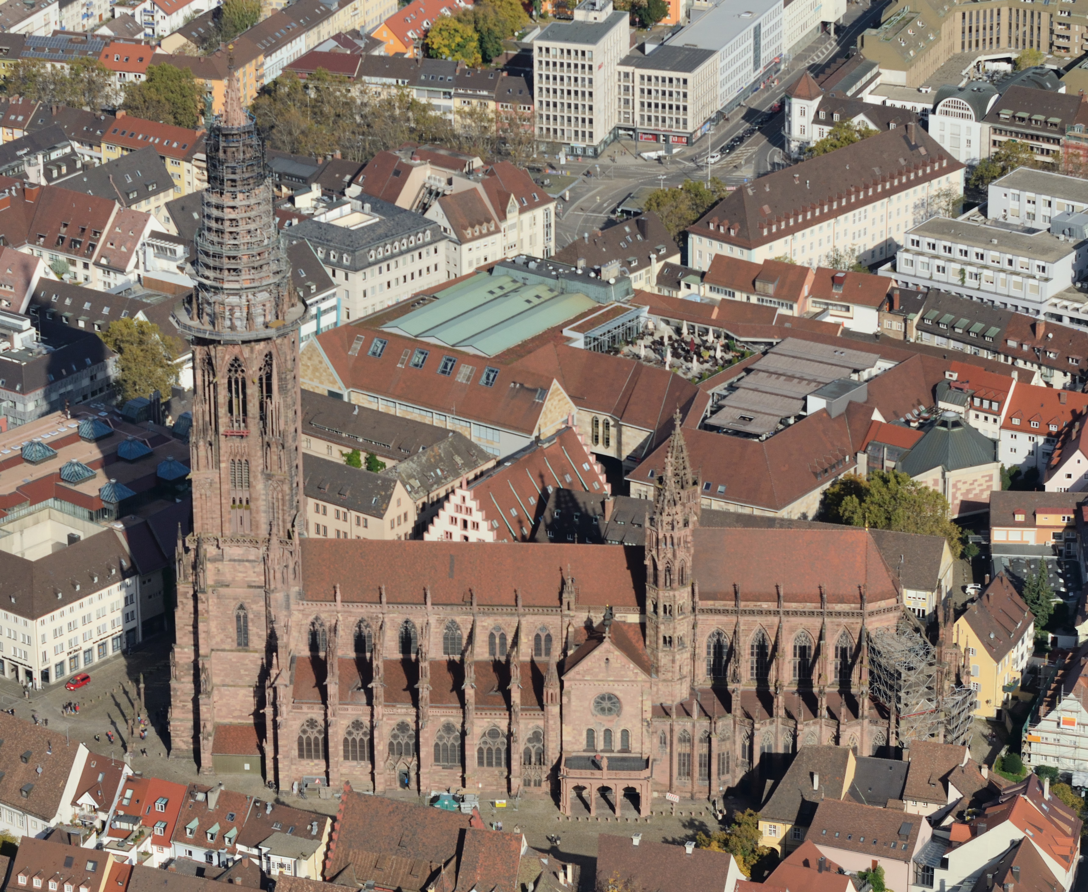 Aerial view Freiburg Minster